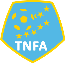 TNFA logo